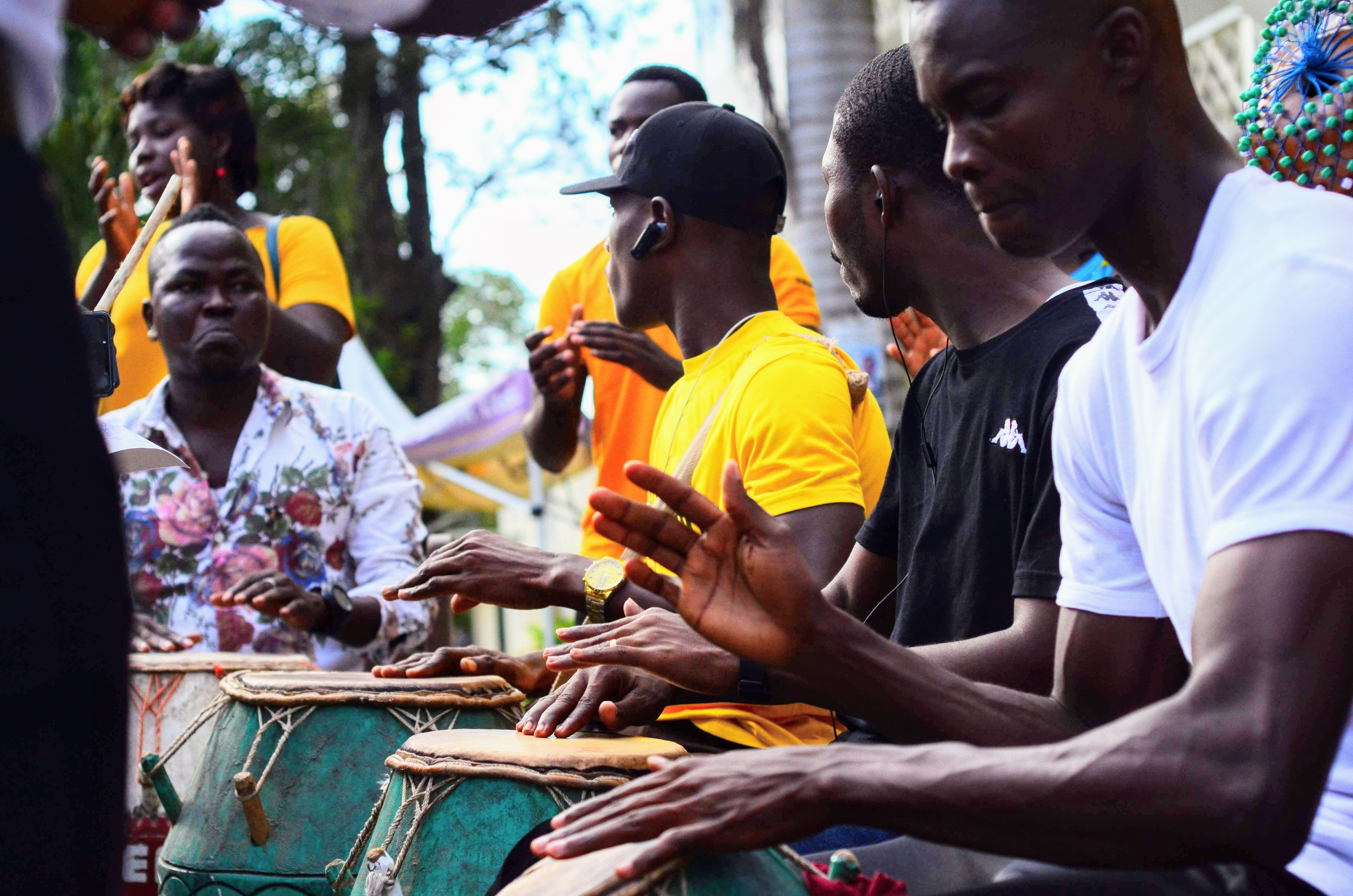 This is an image with the theme "Play" from: Ghana